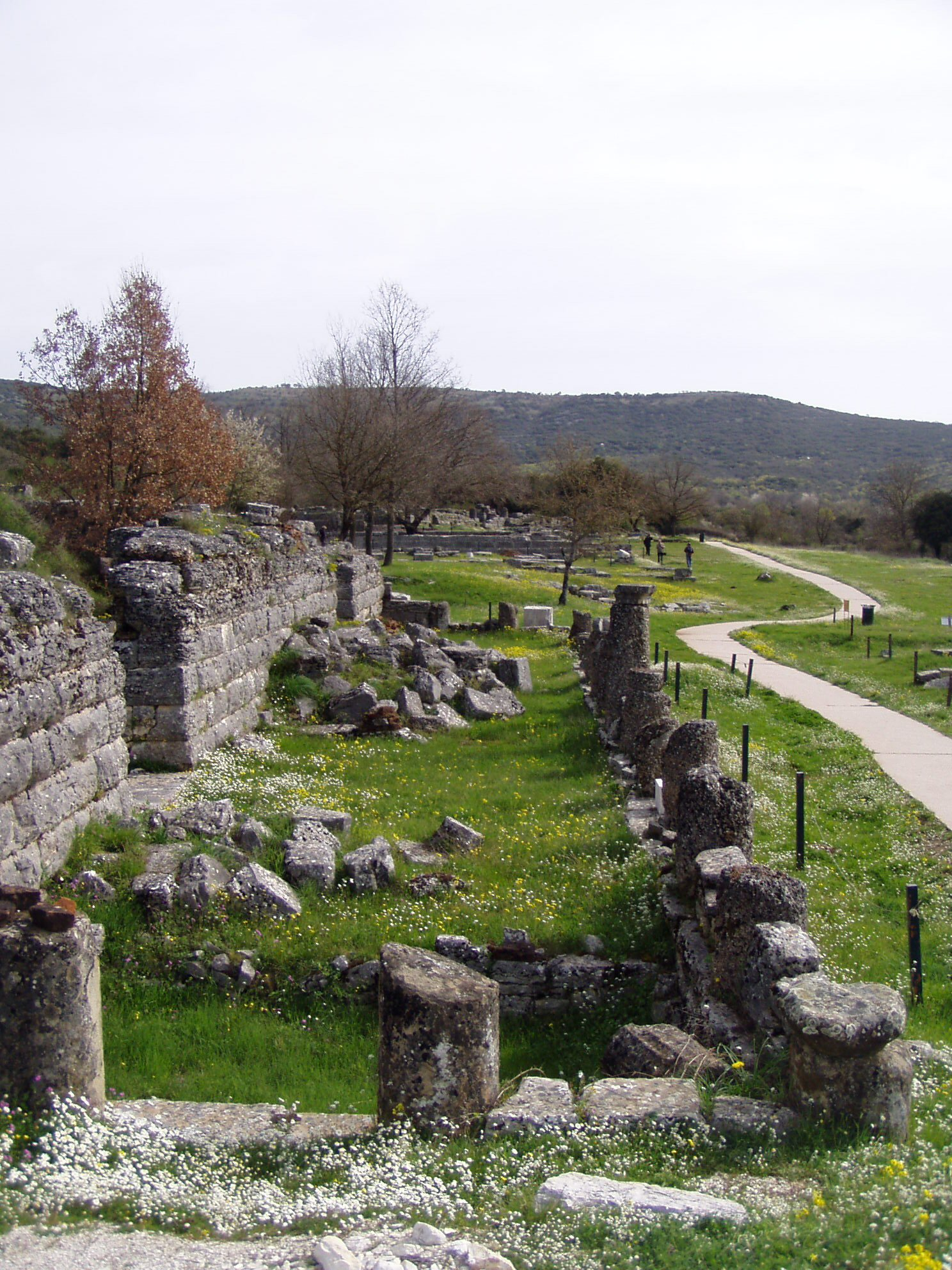 This is the Stoa of the Bouleuterion in Dodona.